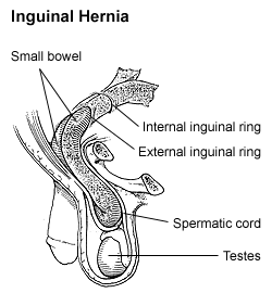 Author: National Institute of Diabetes and Digestive and Kidney Diseases, National Institutes of Health Copyright tag: Why? Because it's from an NIH department. Category:Hernia images